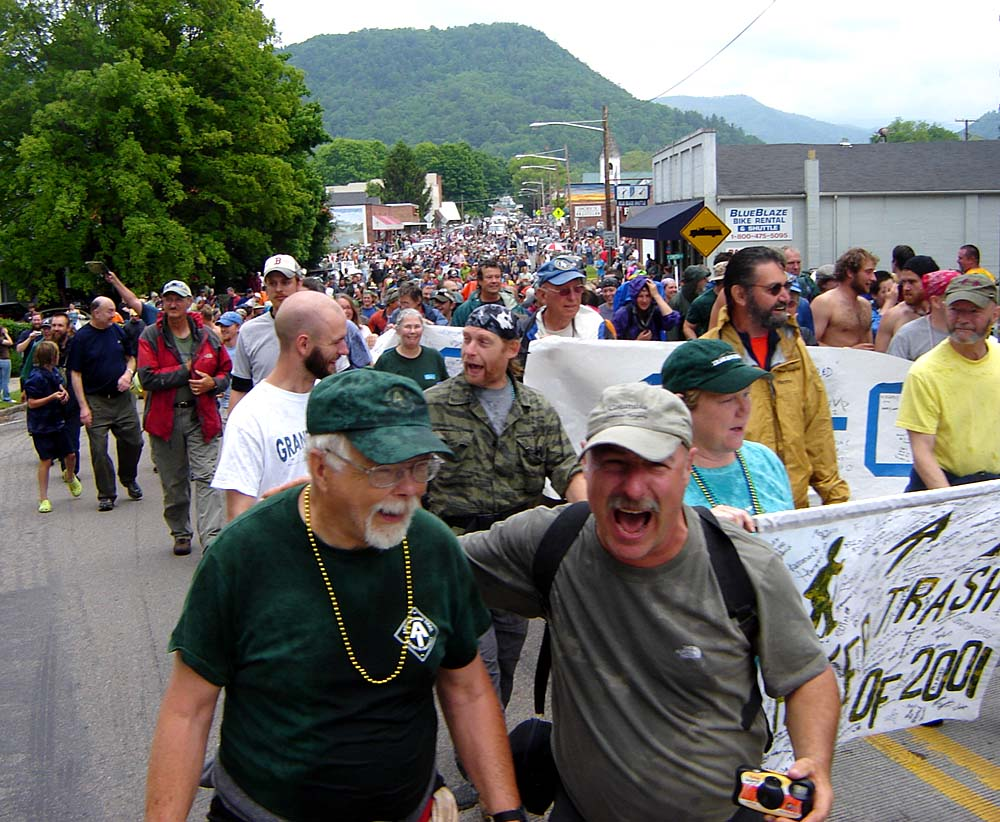 The hiker parade at Trail Days 2006 in Damascus, Virginia